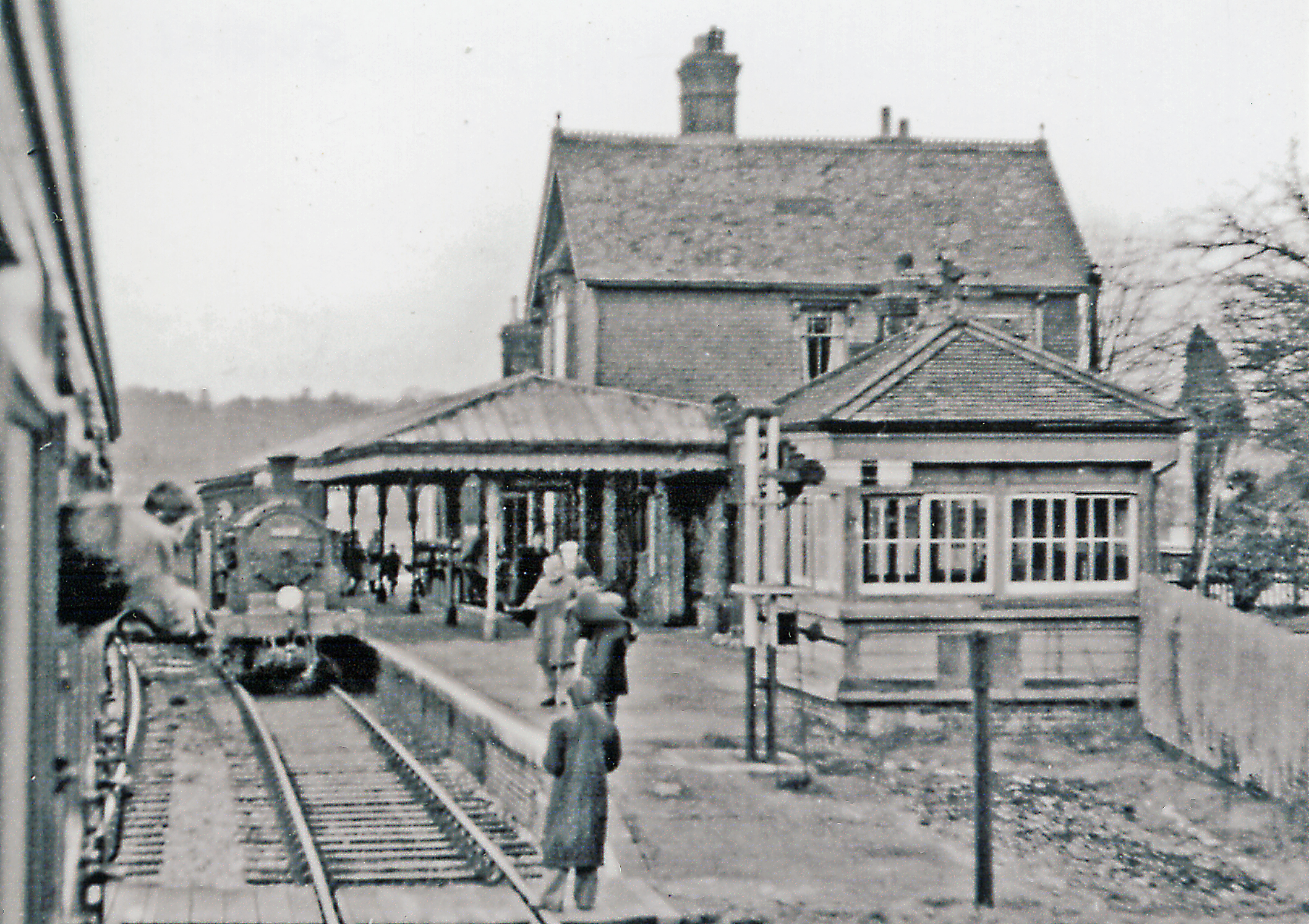 Midhurst station, on last day of passenger services, 1955. View NW, towards Petersfield, also formerly Chichester: ex-LB&SCR branch from Pulborough, went on to Petersfield as ex-LSWR branch, formerly also ex-LB&SCR branch to Chichester (closed 8/7/35). This (indifferent) view taken from a train to Petersfield shows a train going to Pulborough, behind an ex-LSW M7 0-4-4T. The station and line was not finally closed until 12/10/64, when goods services were withdrawn.